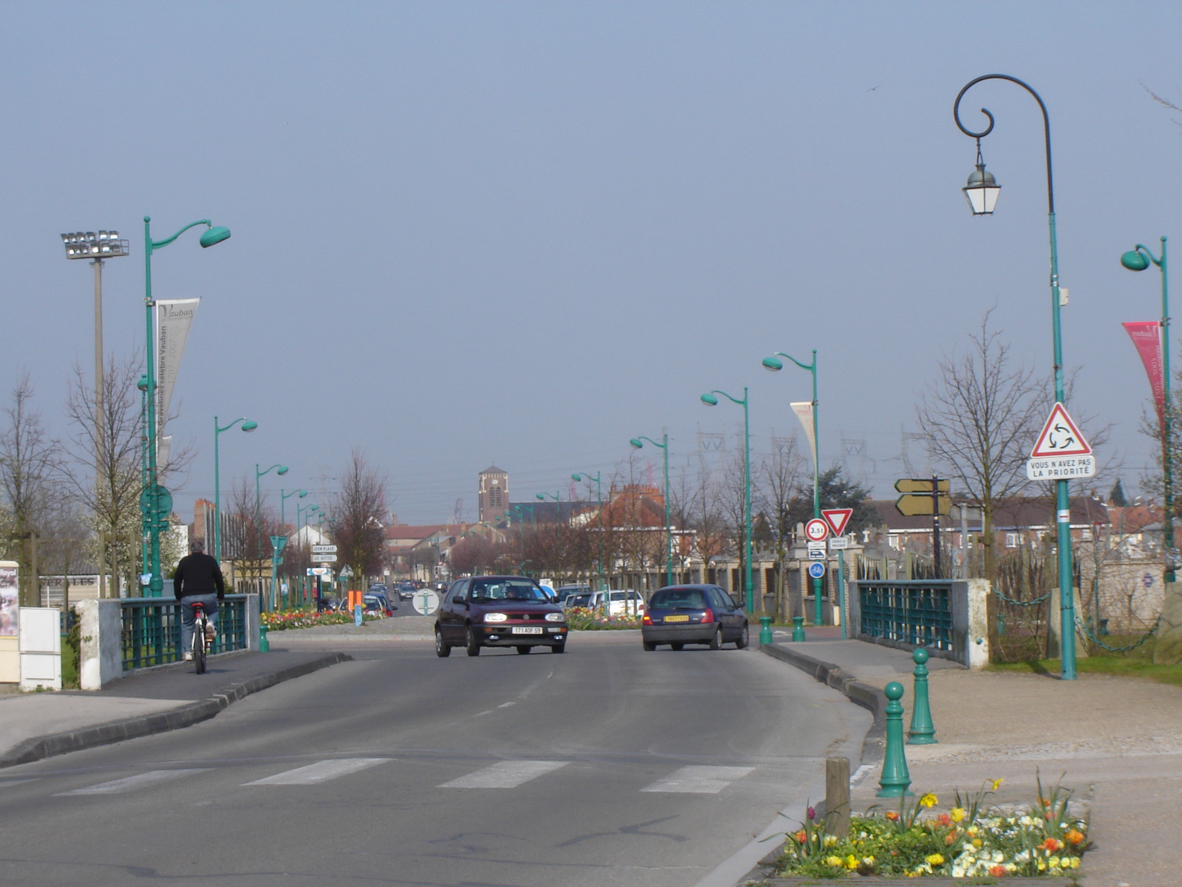 Les Huttes, eastern part of the city of Gravelines, as seen from the city centre, with the church Eglise Saint-Willibrord. Gravelines, Nord, Nord-Pas-de-Calais, France